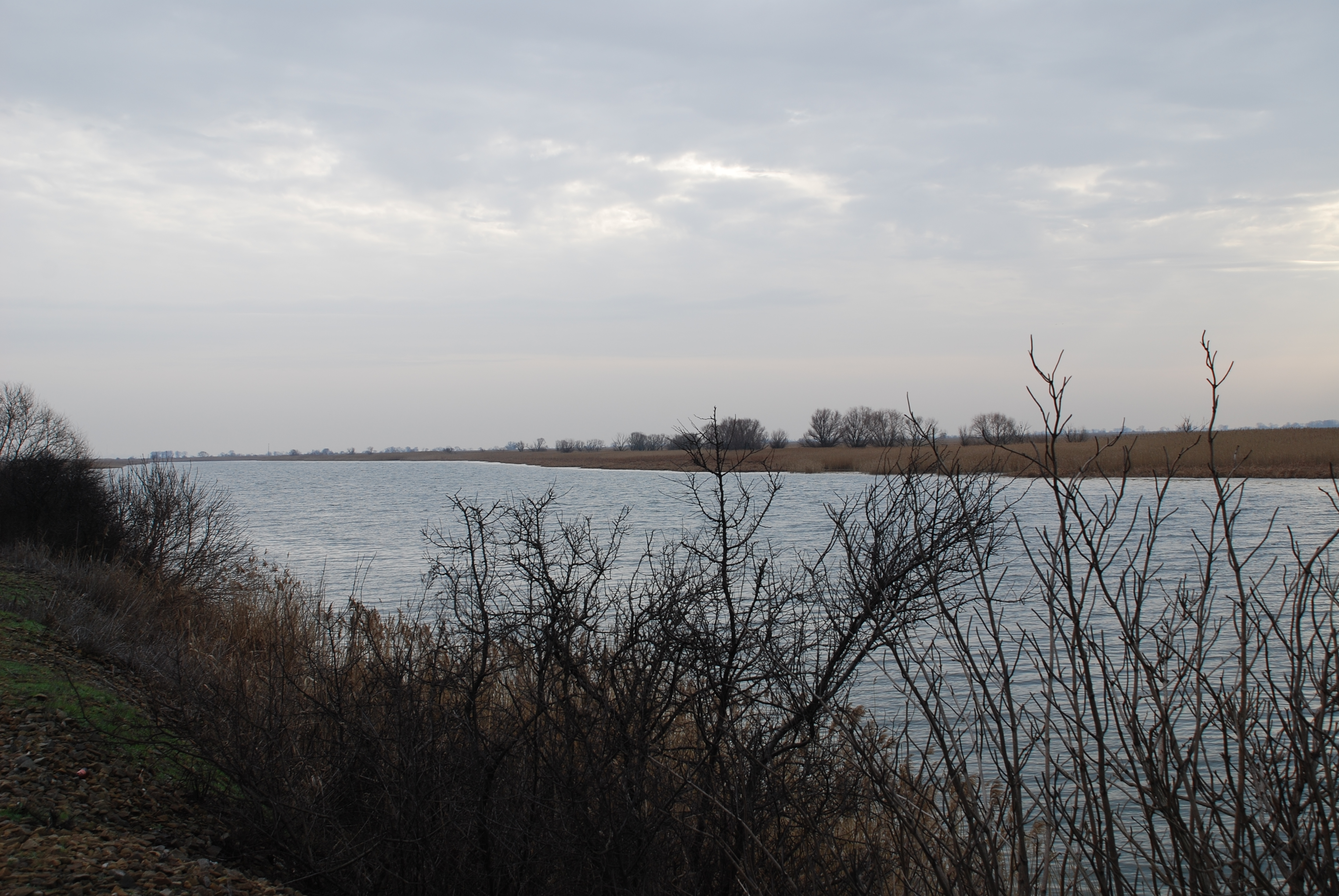 Myortvy Donets River near Sinyavskoe.